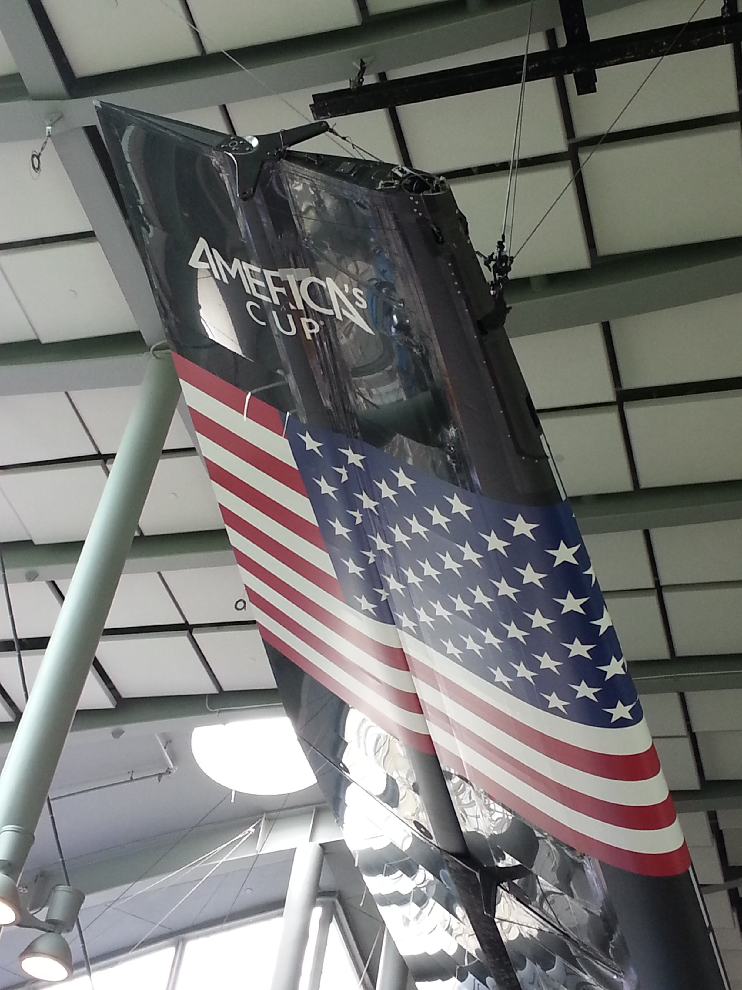 The upper part of the wing of the Oracle AC45 class racing catamaran. An exhibit in the California Academy of Sciences.